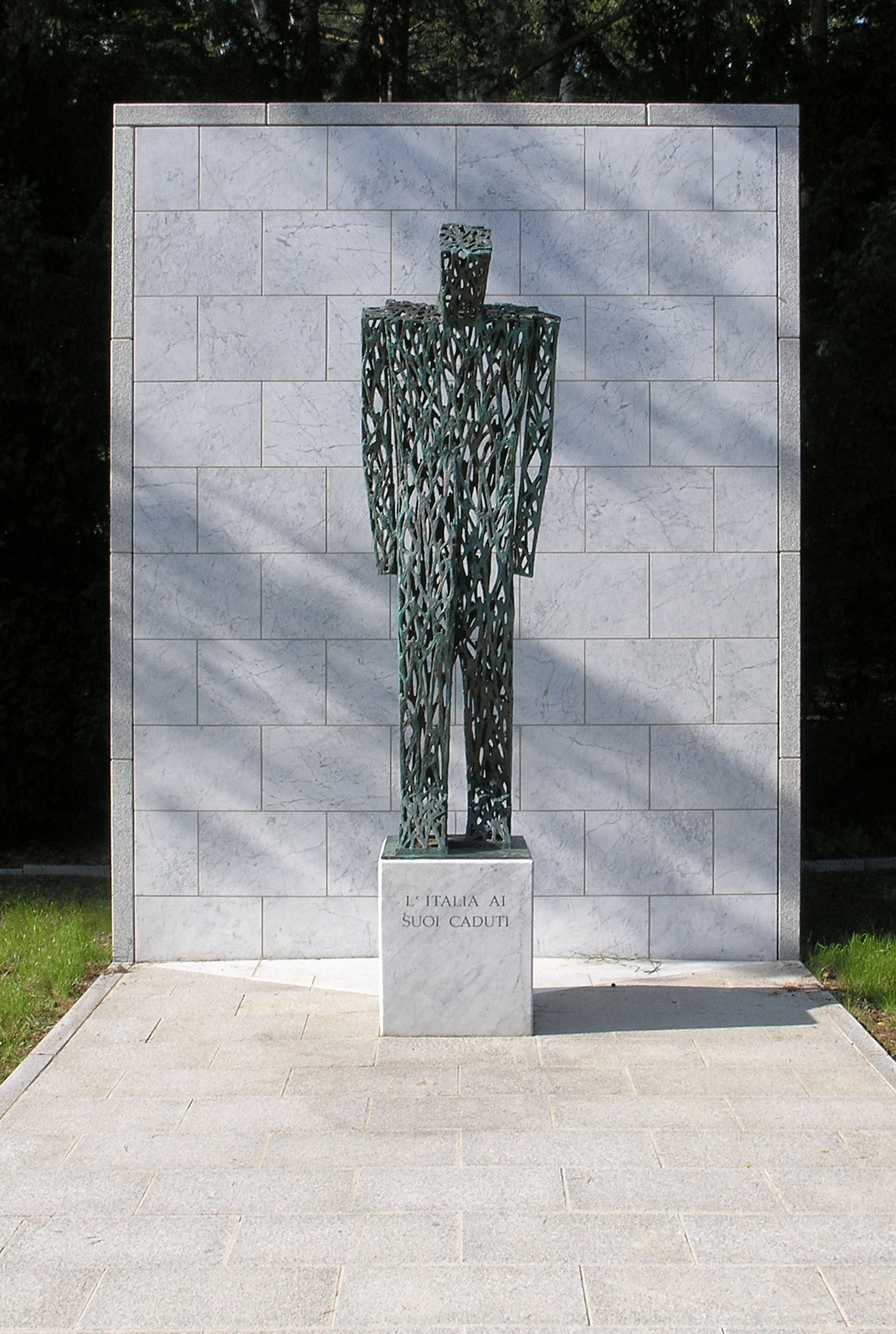 Memorial, Italienischer Soldatenfriedhof, Potsdamer Chaussee 75, Berlin-Nikolassee, Germany